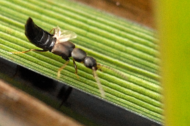 Medon apicalis from Commanster, Belgian High Ardennes .